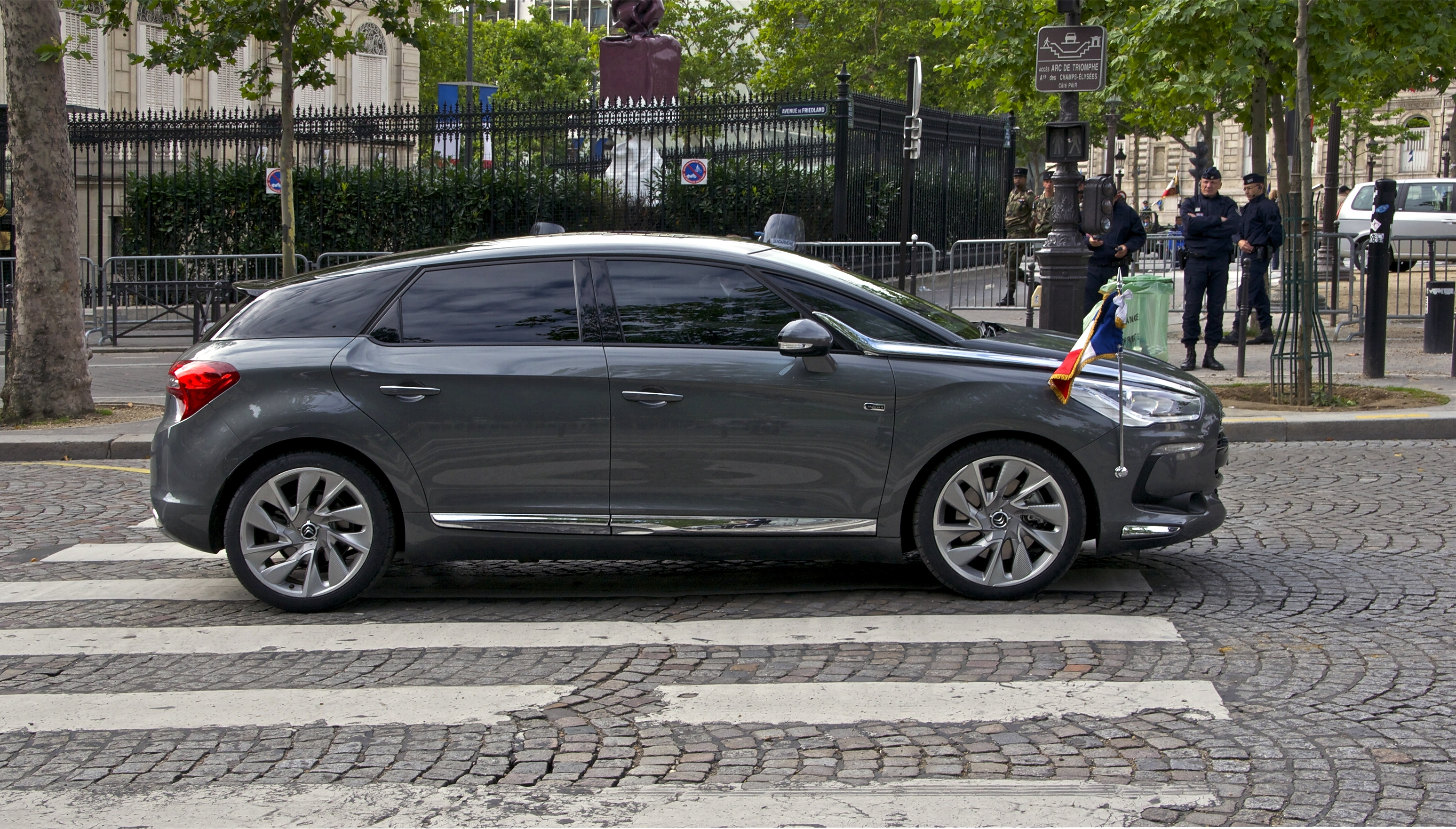 The Citroën DS5 hybrid, used by Mr. François Hollande, President of the French Republic, with the presidential pennant. 14th july 2012, avenue de Friedland, Paris, France.